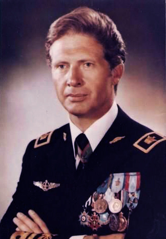 General Nader Jahanbani.